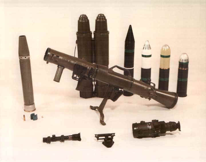 Joint Ranger Anti-armor, Anti-personnel Weapon System Ammunition Upgrades